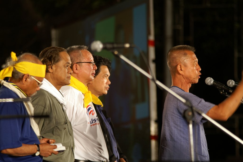 5 leaders of People's Alliance for Democracy in 2006 (from left: Somsak Kosaisuk, Pipop Thongchai, Sondhi Limthongkul, Somkiet Phongpaibul and Chamlong Srimuang)